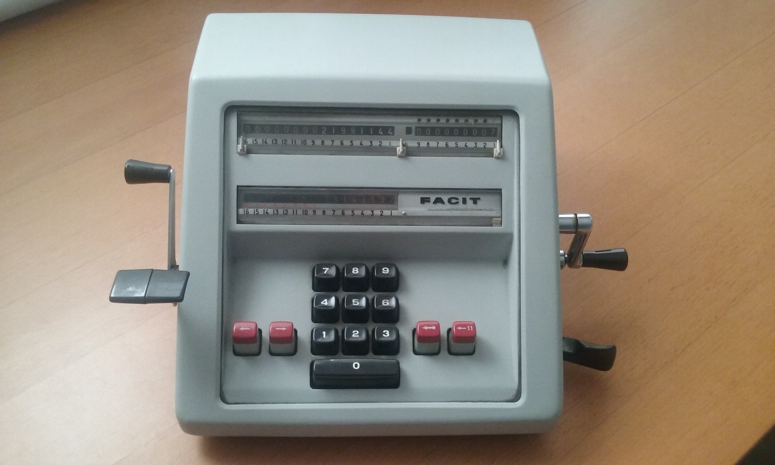 Model FACIT CM2-16 mechanical calculator. 11x9x16 figures Made in Sweden (1965)